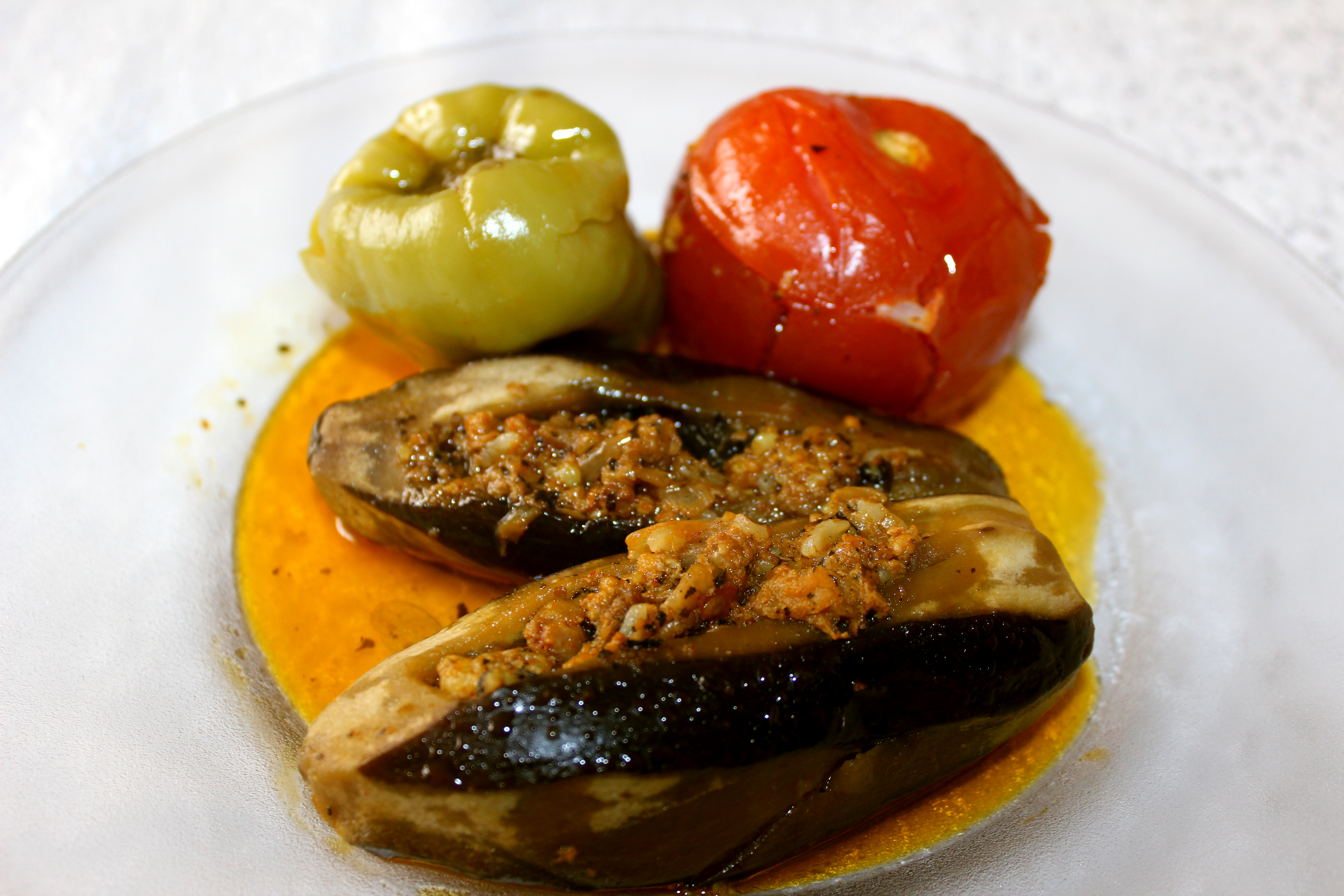 Azerbaijani Badımcan dolması